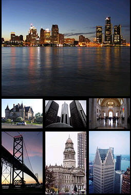 Thomas paine's photo montage of Detroit pics already freely licensed on wikipedia From top to bottom left to right: Detroit skyline. Hecker House in Detroit. Renaissance Center. Detroit Institute of Arts. Ambassador bridge. Wayne County Building. Comerica Tower.